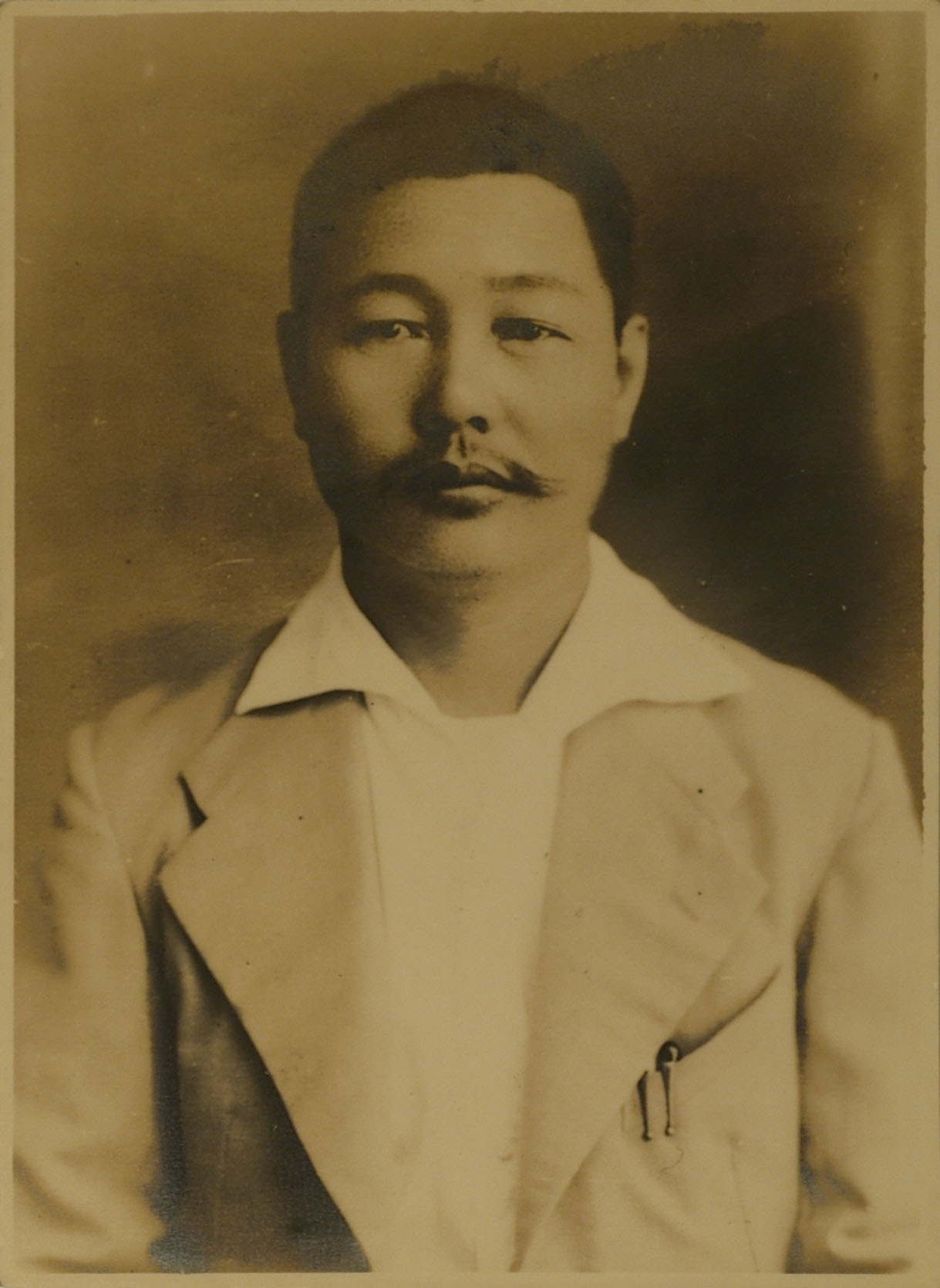 Lōa Hô